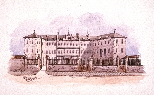 Painting, Old College, College Street, Montreal, Watercolour on paper, 17.8 x 25.6 cm